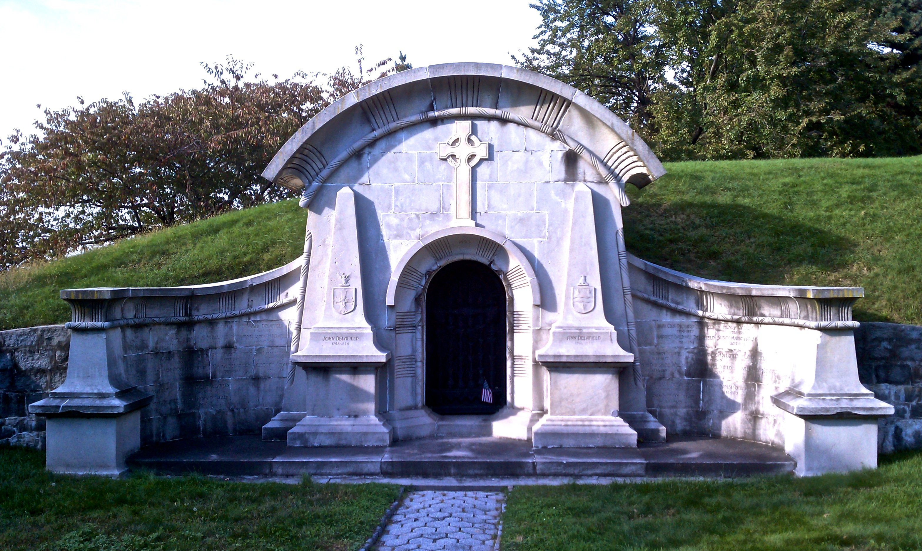 Delafield Family Mausoleum, Greenwood Cemetery, Brooklyn NY